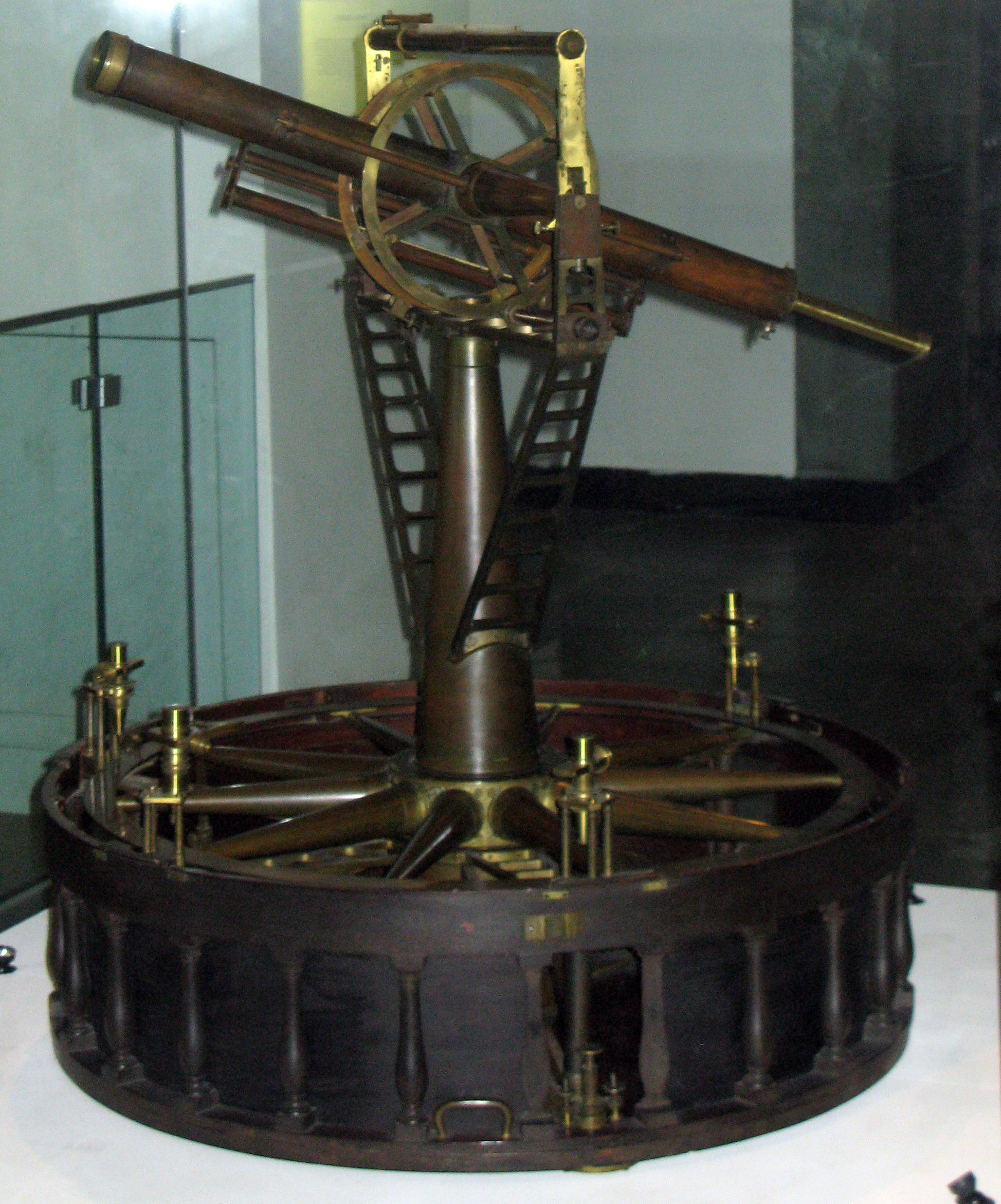 3 foot ramsden theodolite from 1791 used during the principal Triangulation of Great Britain